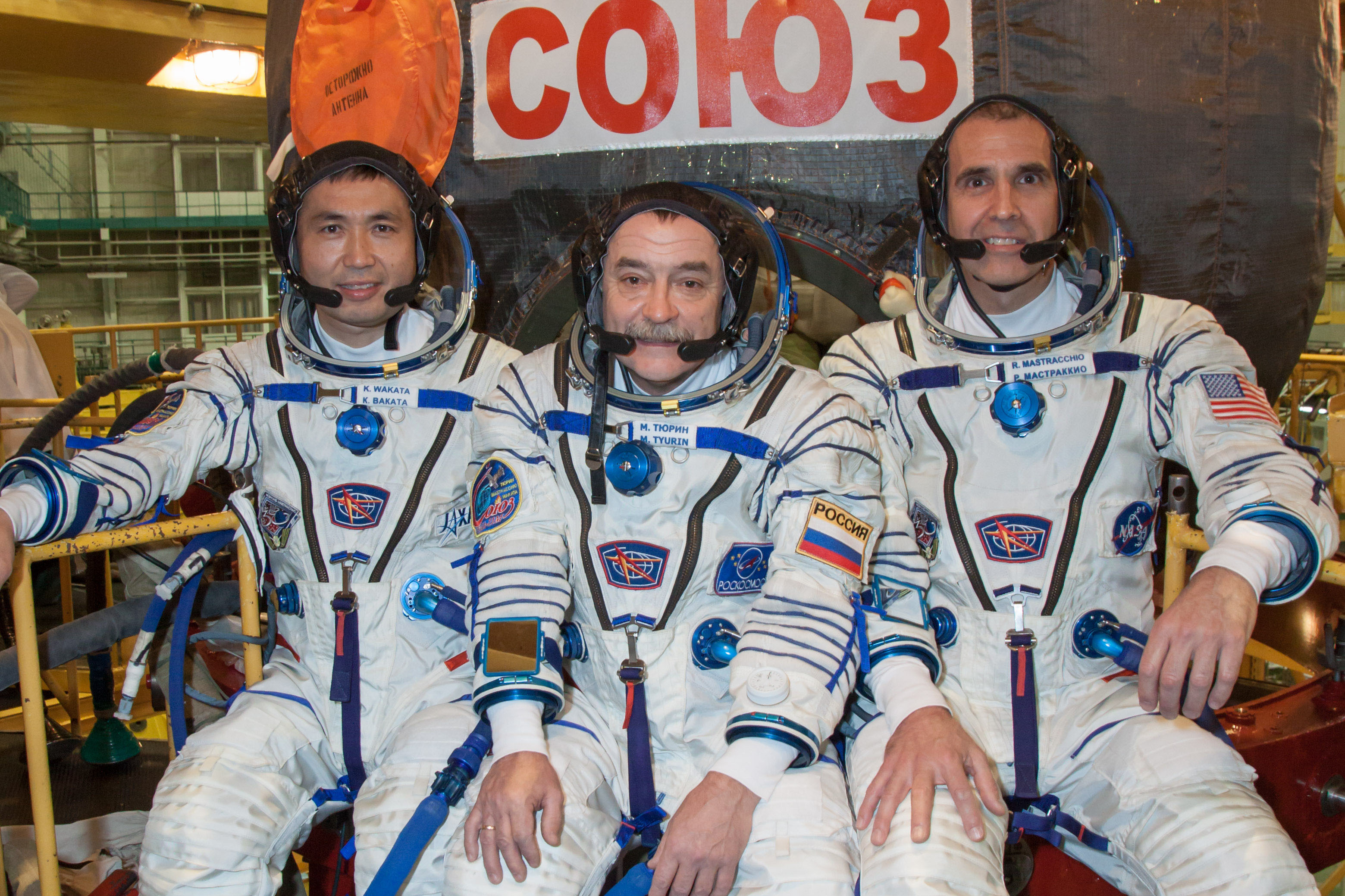 In the Integration Facility at the Baikonur Cosmodrome in Kazakhstan, Expedition 38/39 Flight Engineer Koichi Wakata of the Japan Aerospace Exploration Agency (left), Soyuz Commander Mikhail Tyurin (center) and Flight Engineer Rick Mastracchio of NASA (right) pose for pictures outside their Soyuz TMA-11M spacecraft Oct. 28 following a fit check dress rehearsal. The trio is scheduled to launch Nov. 7, Kazakh time, in the Soyuz spacecraft from Baikonur to begin a six-month mission on the International Space Station.